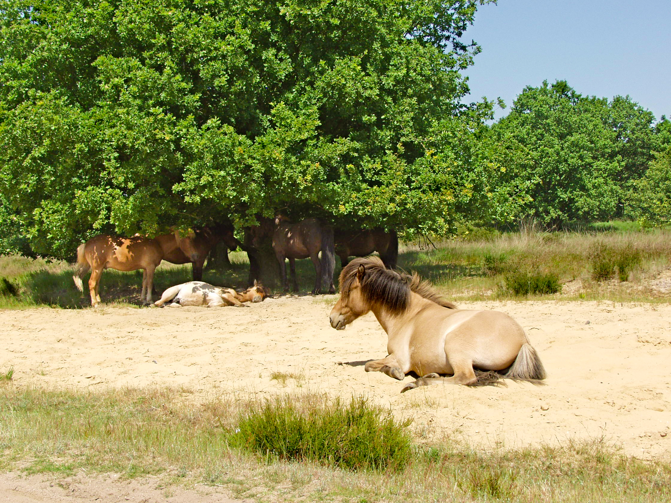 This is a photo or sound file made in Meinweg National Park in the Netherlands, with the main subject of the file in the category: animals